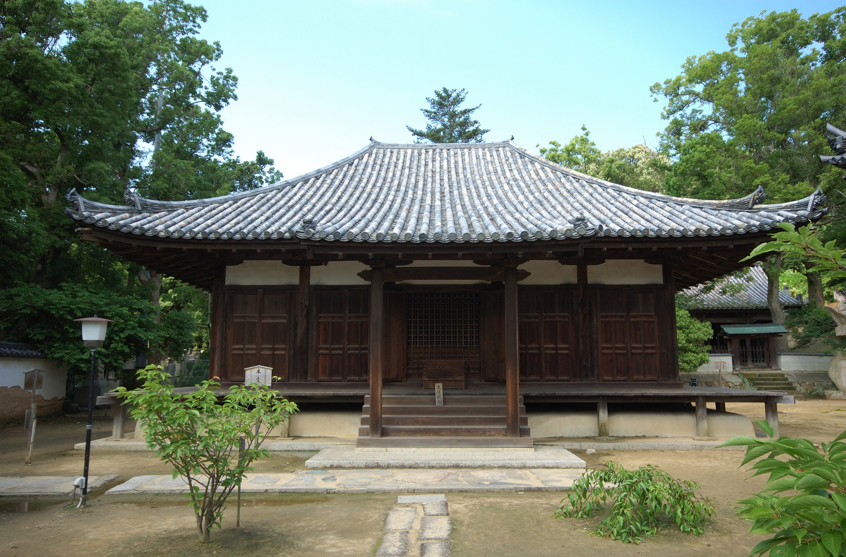 Hondō (main hall, Japan's national important cultural property), Honren-ji temple, Okayama Pref., Japan